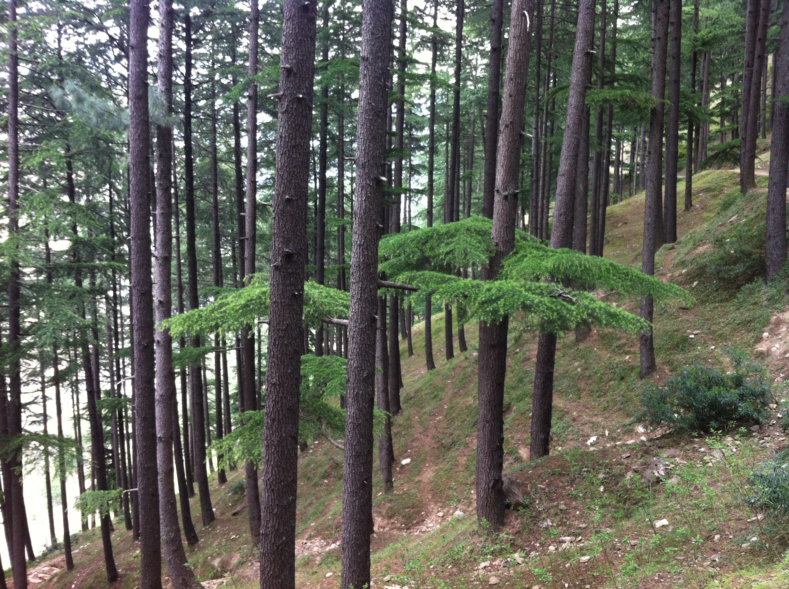 The best deodar forests in the vicinity of Chattrari village